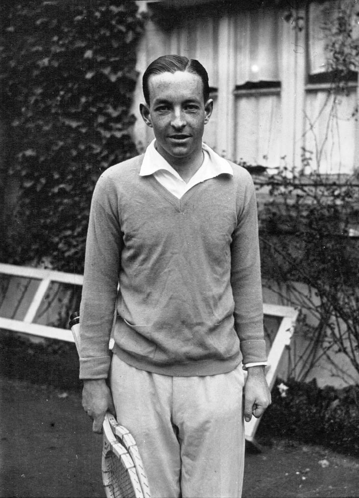 French tennis player René de Buzelet at the Tennis Club de Paris (match Paris-London).